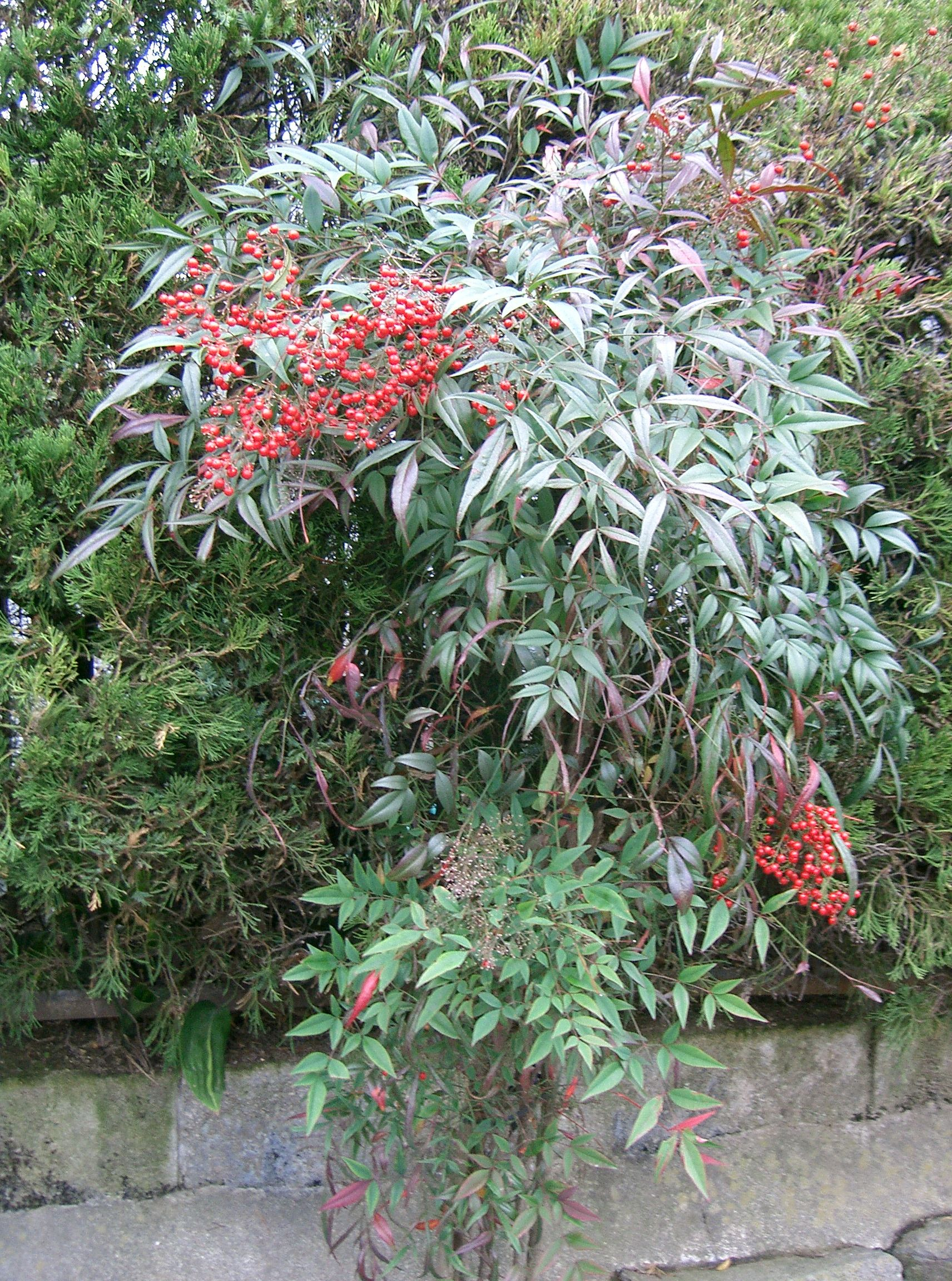 Nandina domestica, Osaka-fu, Japan